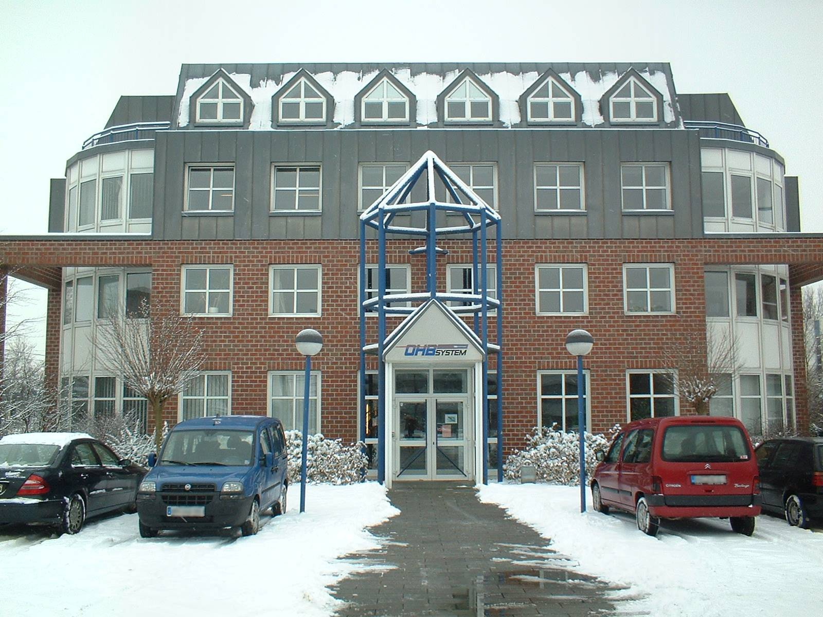 OHB Building 3